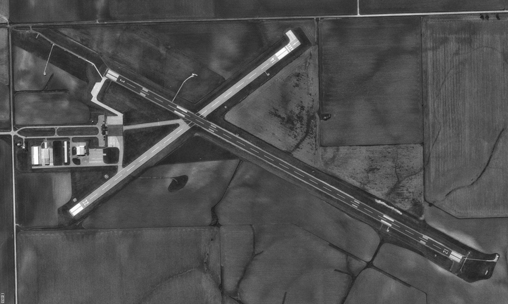 USGS digital orthophoto of Clinton Municipal Airport in Clinton, Iowa, United States.The image has been rotated clockwise 90 degrees (North direction is to the right). N